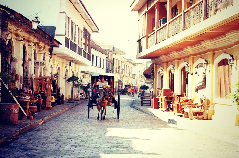 Calle Crisologo is a 15th Century Spanish Street in Vigan,Ilocos Sur considered to be one of the heritage sites in the Philippines. It is lined with antique houses, and specialty shops leading to the town's hundred year old churches. Natives and tourists alike are able to wander faster with the "KALESA" as shown here,the centuries' old way of Filipino's to travel: with a horse and a carriage.